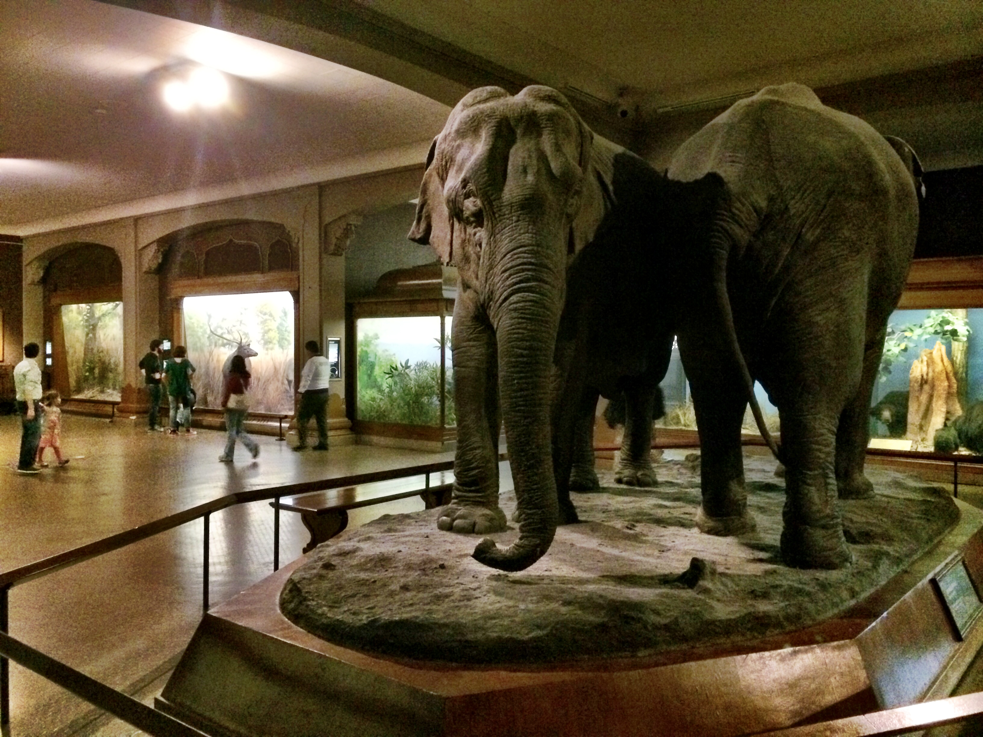 Image of Vernay-Faunthorpe Hall of Asian Mammals at American Museum of Natural History